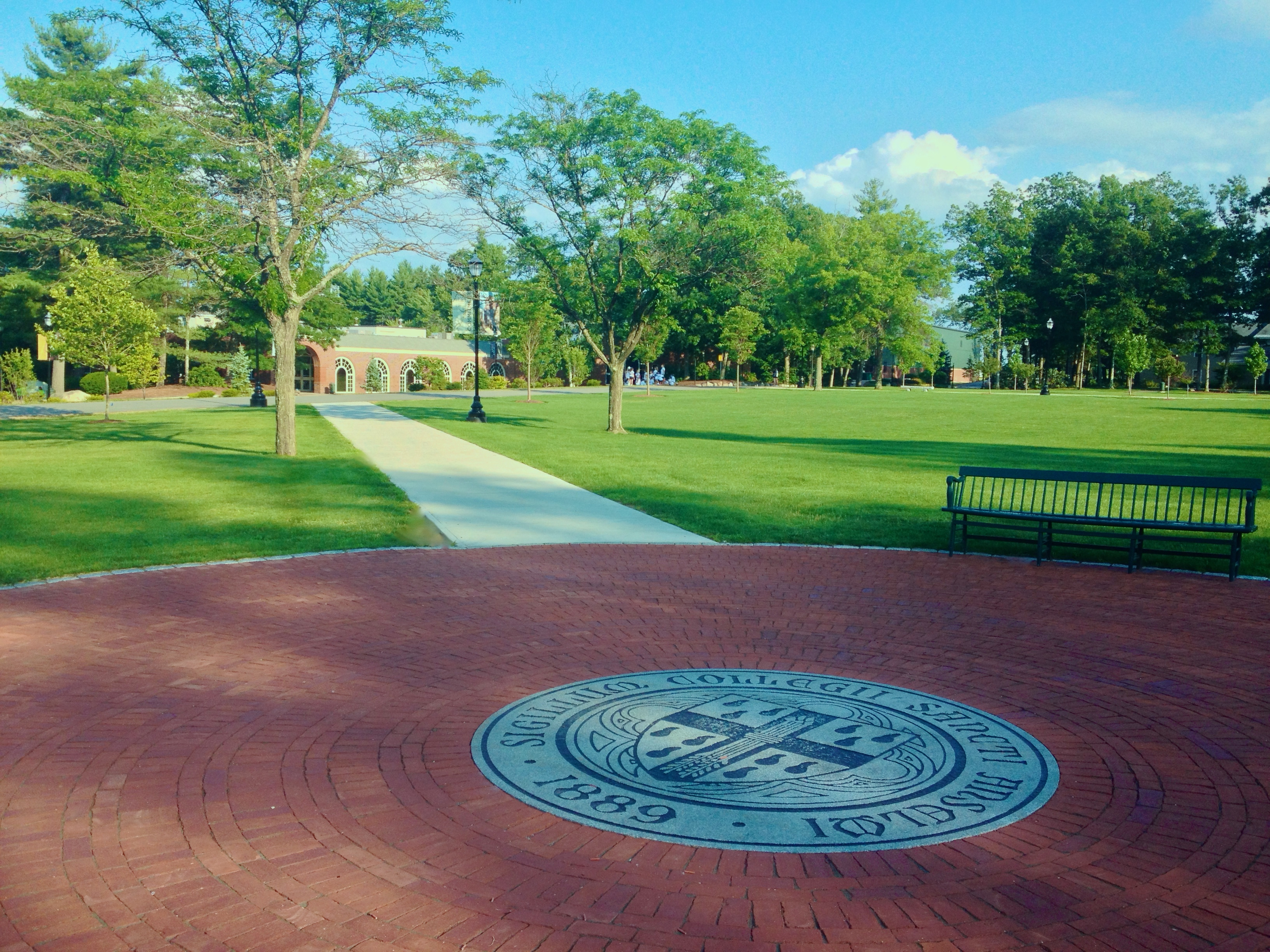 An image of the new quad at Saint Anselm College, where the JOA parking lot used to be.